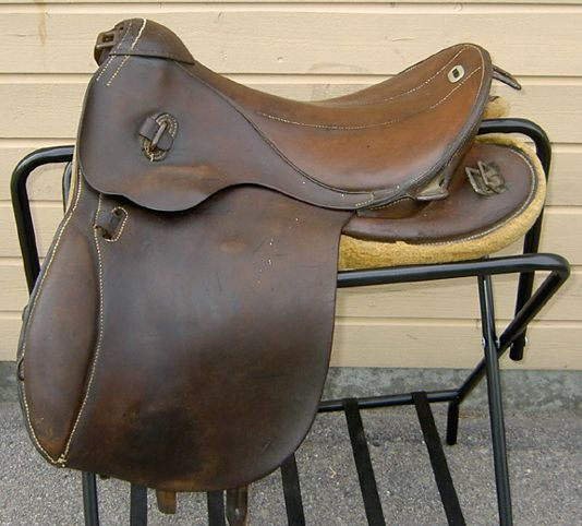 Picture of a swedish military saddle model m/1903